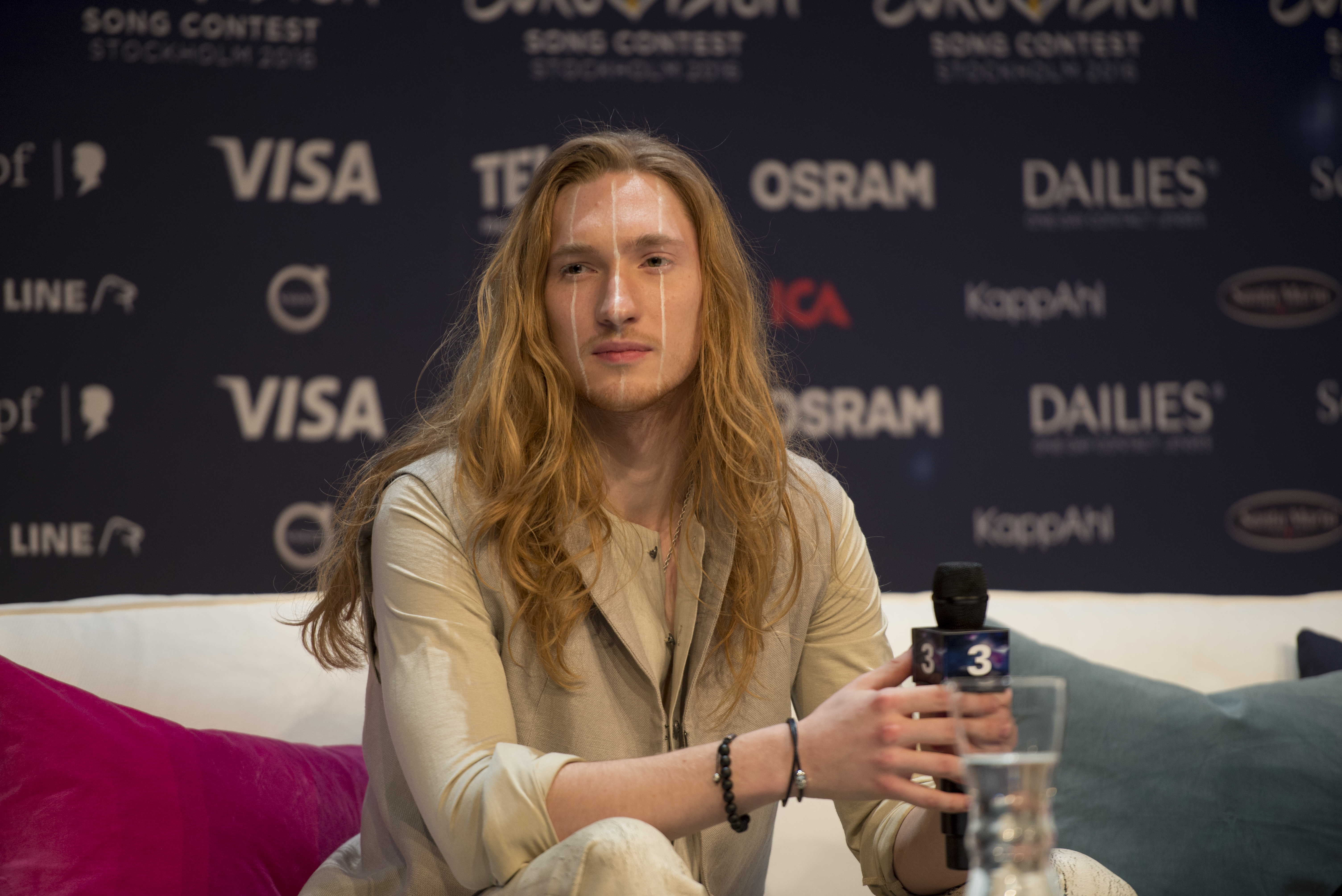 Ivan at a Meet & Greet during the Eurovision Song Contest 2016 in Stockholm. (Help translate this text)